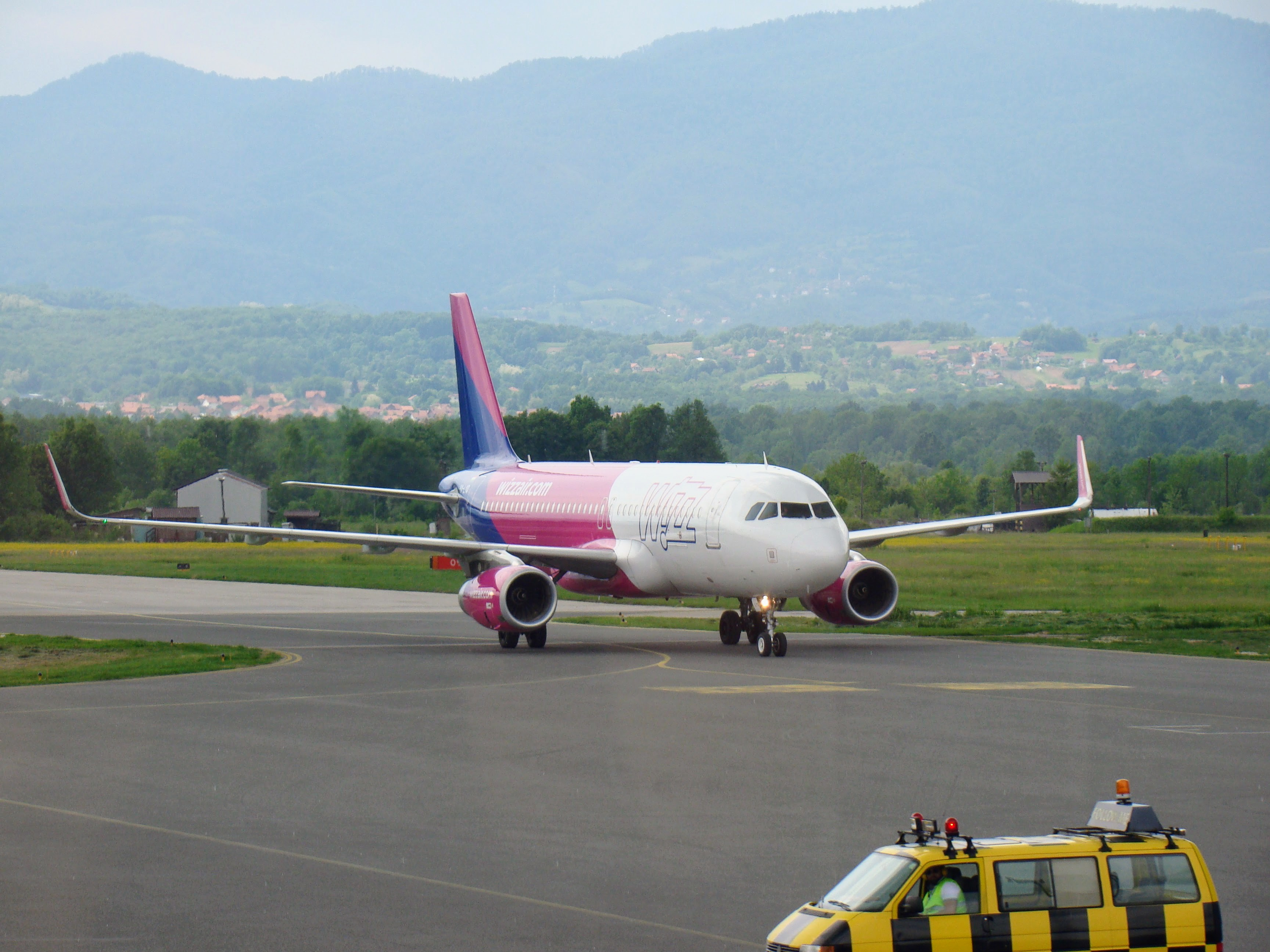 WizzAir, main airline, airplane taxiing after landing in Tuzla International Airport